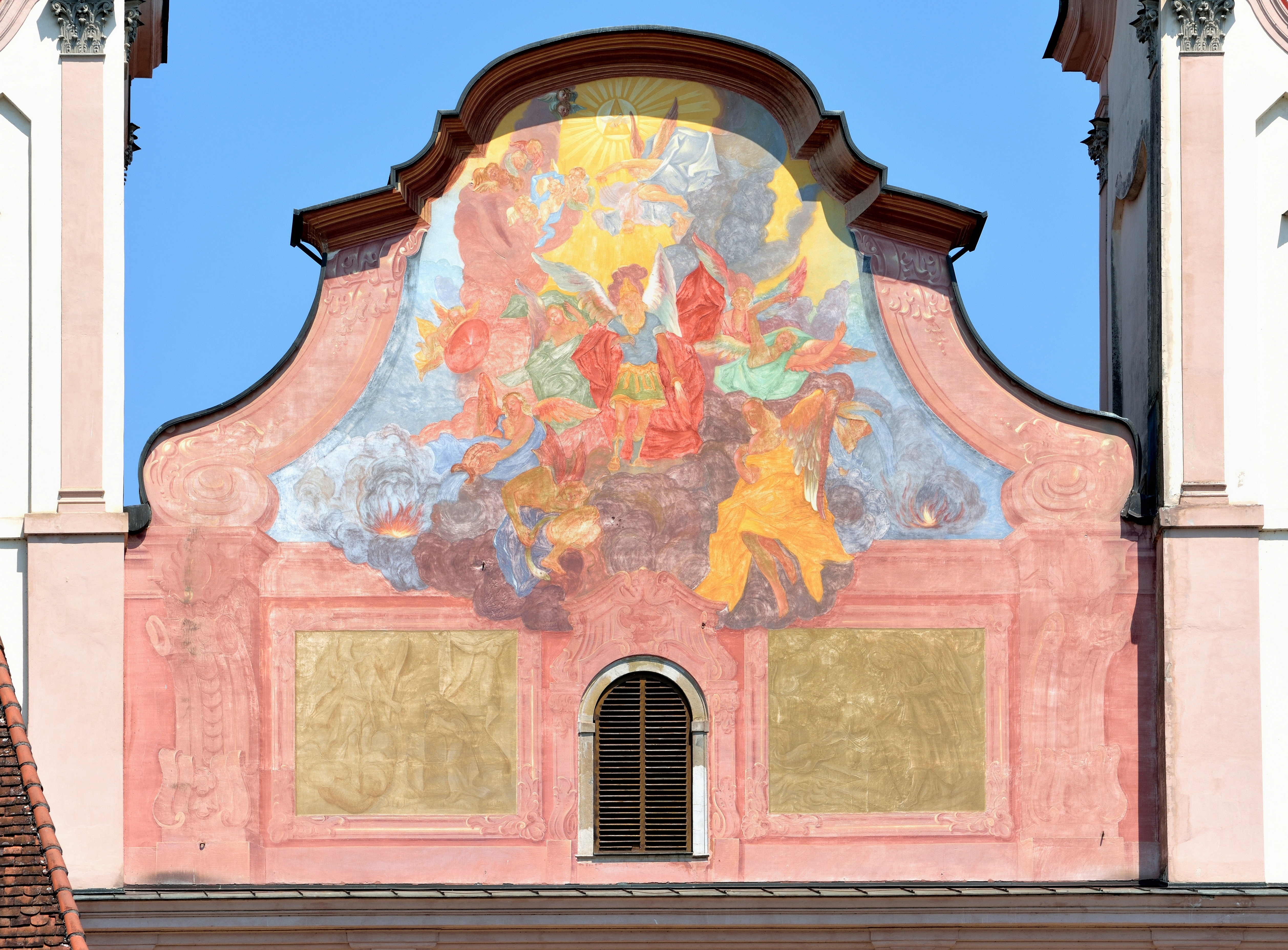 Parish church Saint Michael, pediment fresco by Franz Xaver Gürtler, Michaelerplatz 5, Steyr, Upper Austria